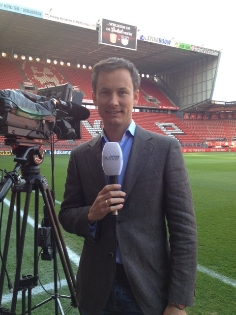 Bas van Veenendaal